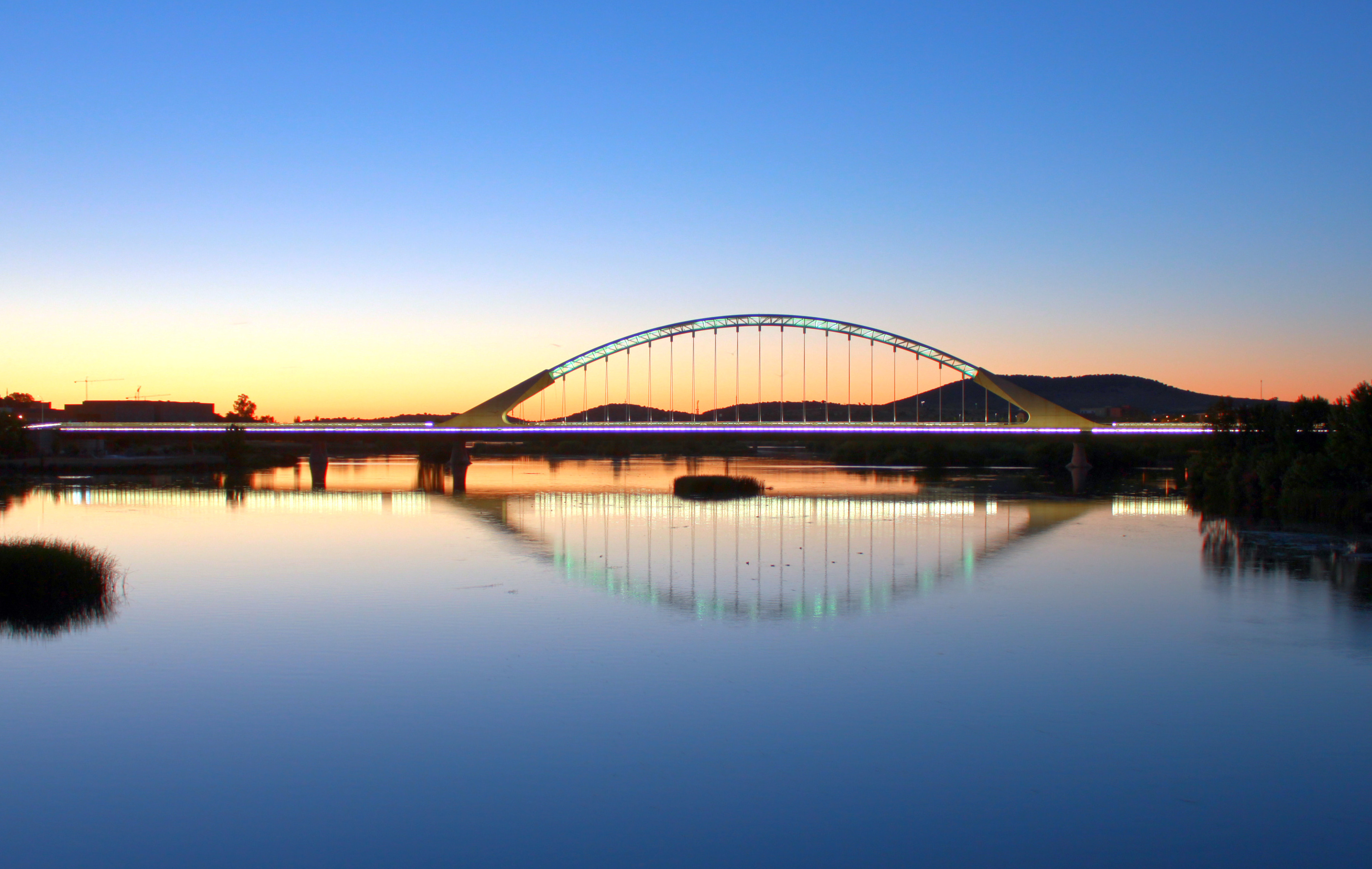 Night view of the bridge of Lusitania in Mérida, Spain.